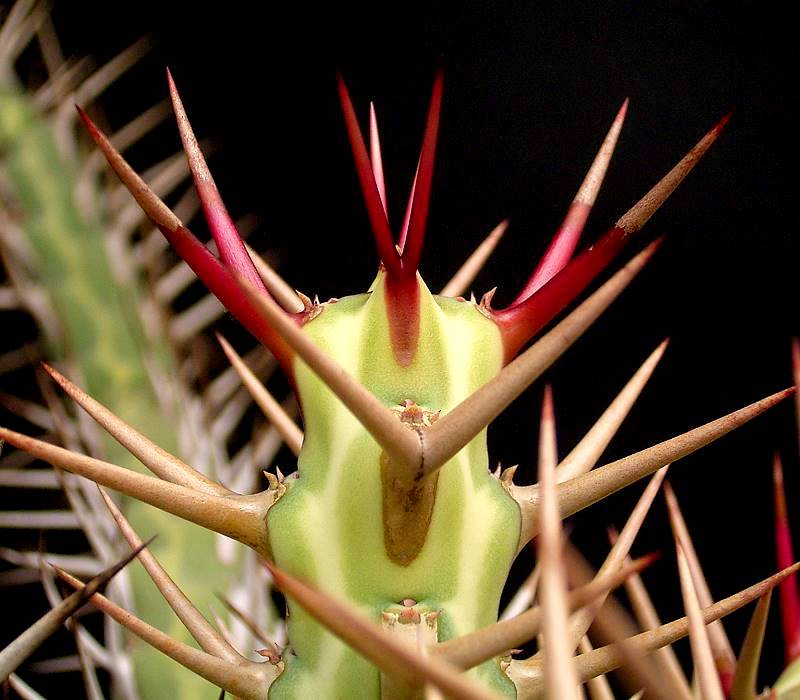 Euphorbia samburuensis P.R.O.Bally & S.Carter